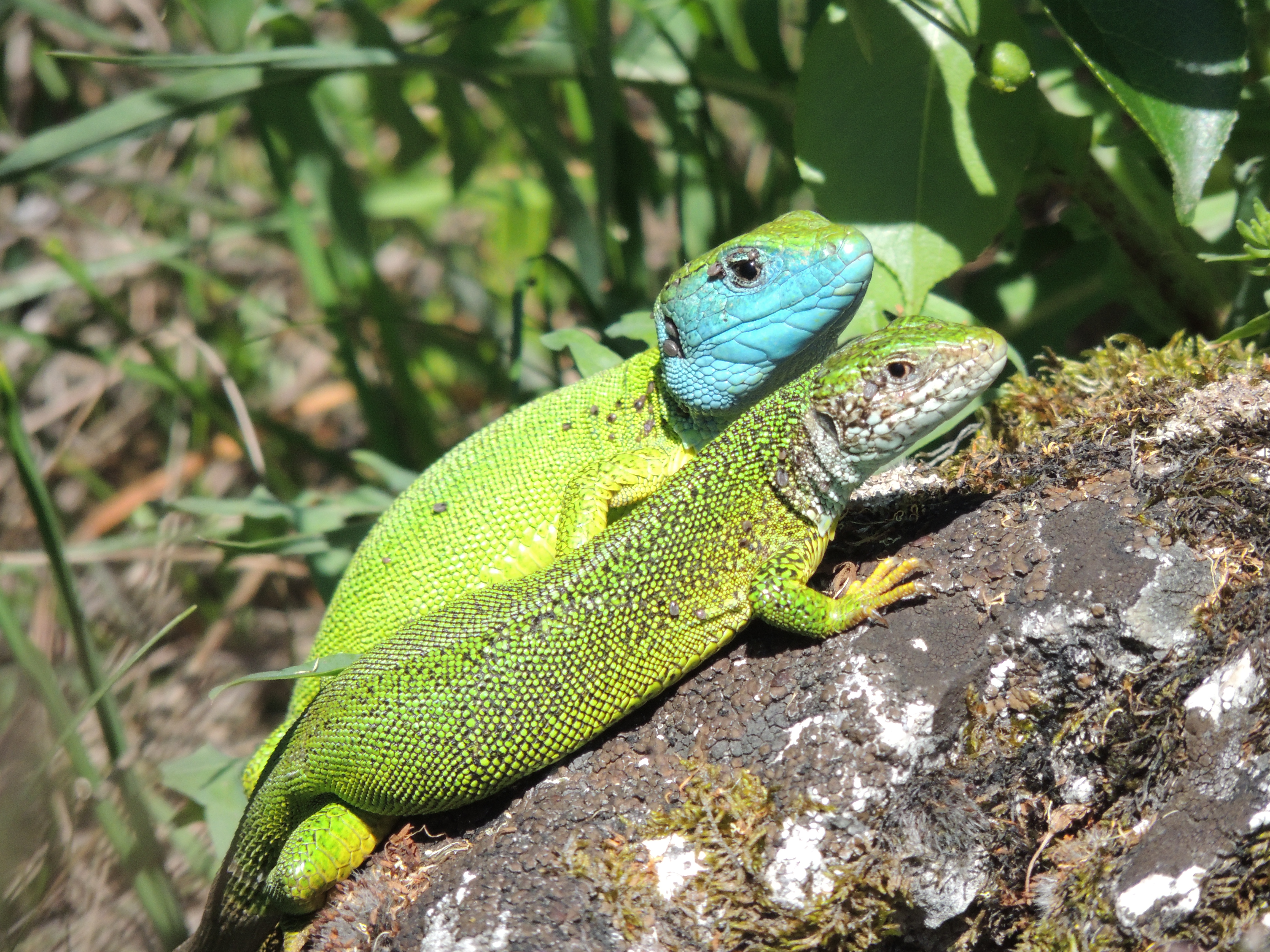 Male and Female European green lizard in Mai 2014